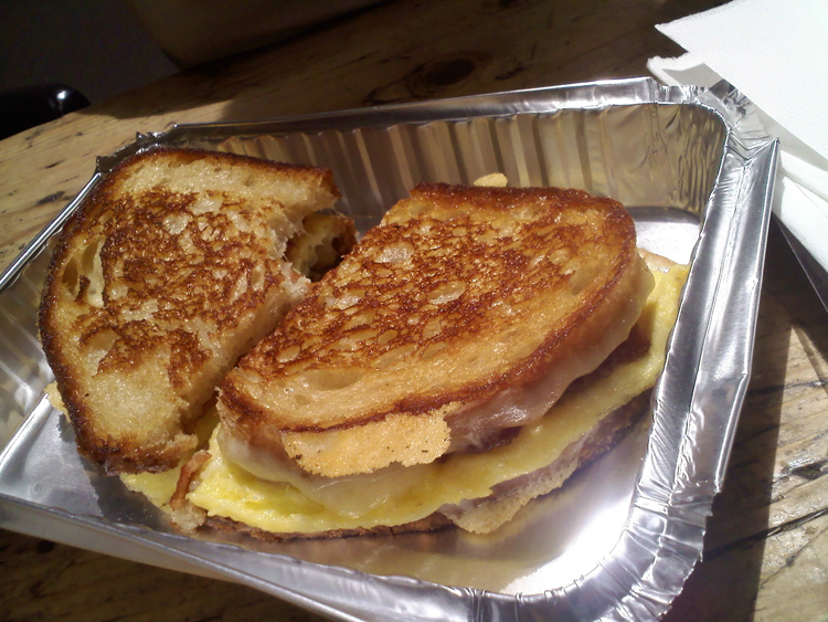 New York Breakfast Sandwich on Joan's on Third breakfast menu.